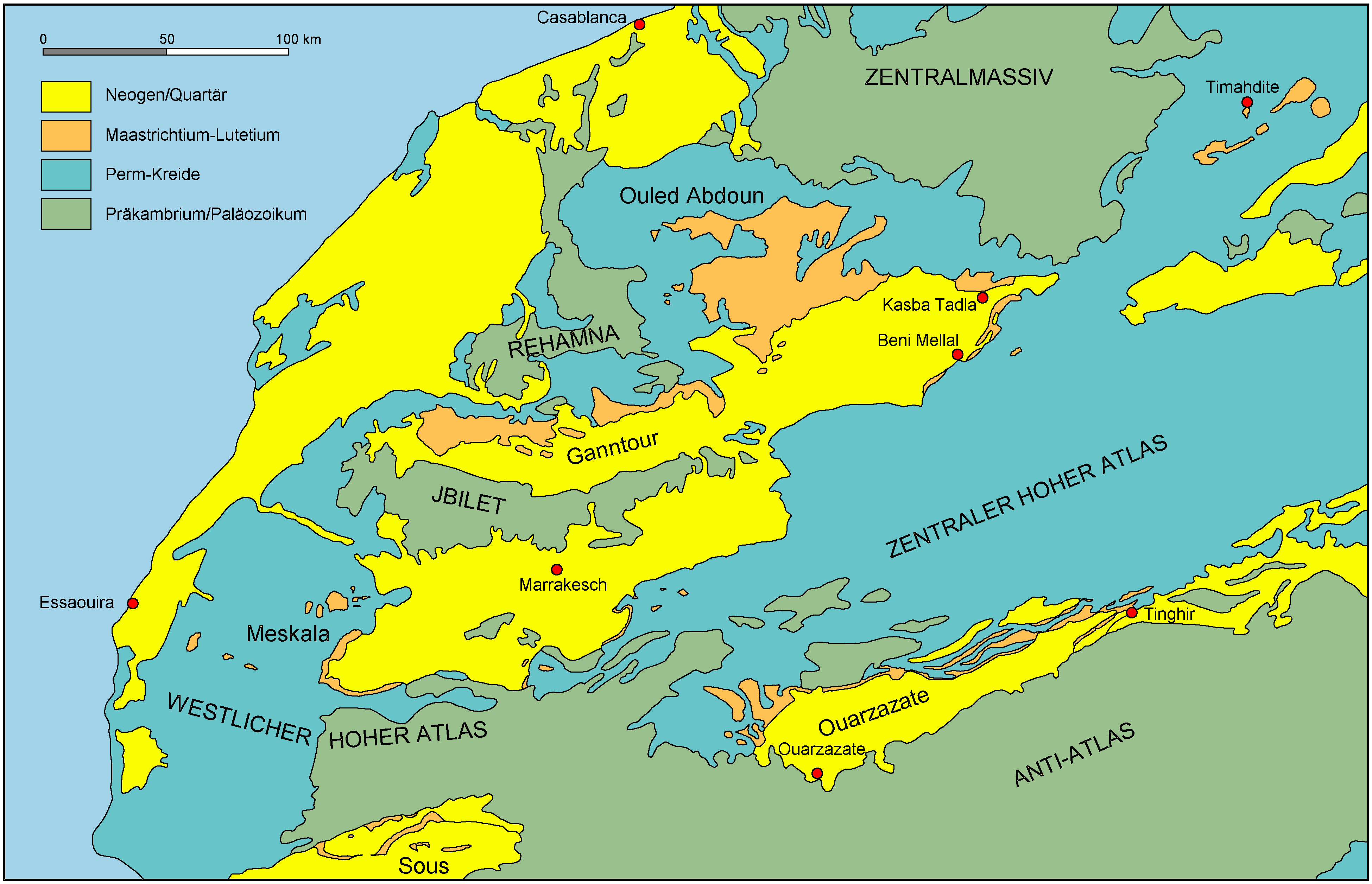 Geological map of Central Morocco, redrawn after: Hans-Georg Herbig: Das Paläogen am Südrand des zentralen Hohen Atlas und im Mittleren Atlas Marokkos. Stratigraphie, Fazies, Paläogeographie und Paläotektonik. Berliner Geowissenschaftliche Abhandlungen Reihe A 135, 1991, pp. 1–289 (fig. 3)